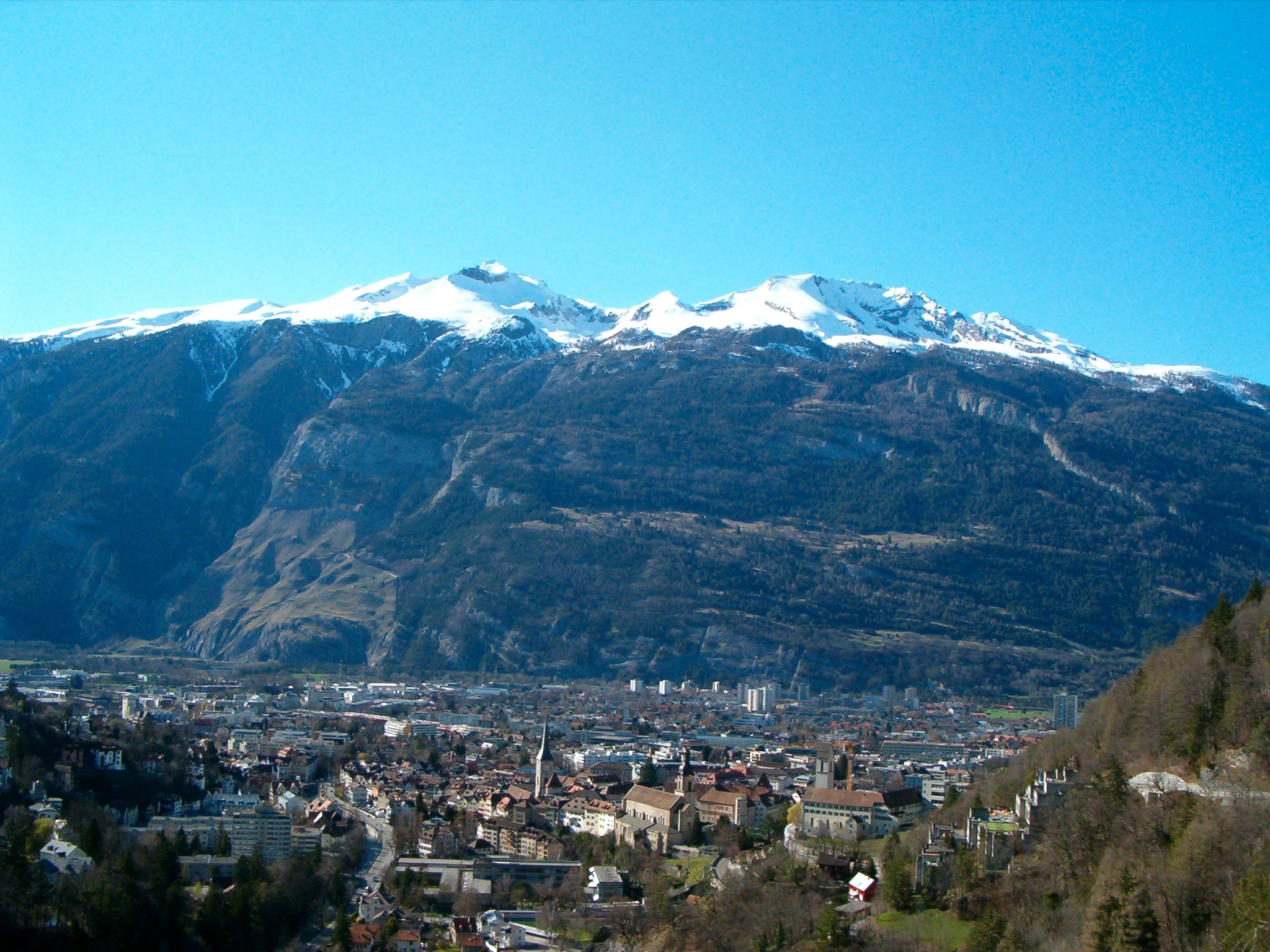 Calanda peaks above the city of Chur, Grisons/Switzerland